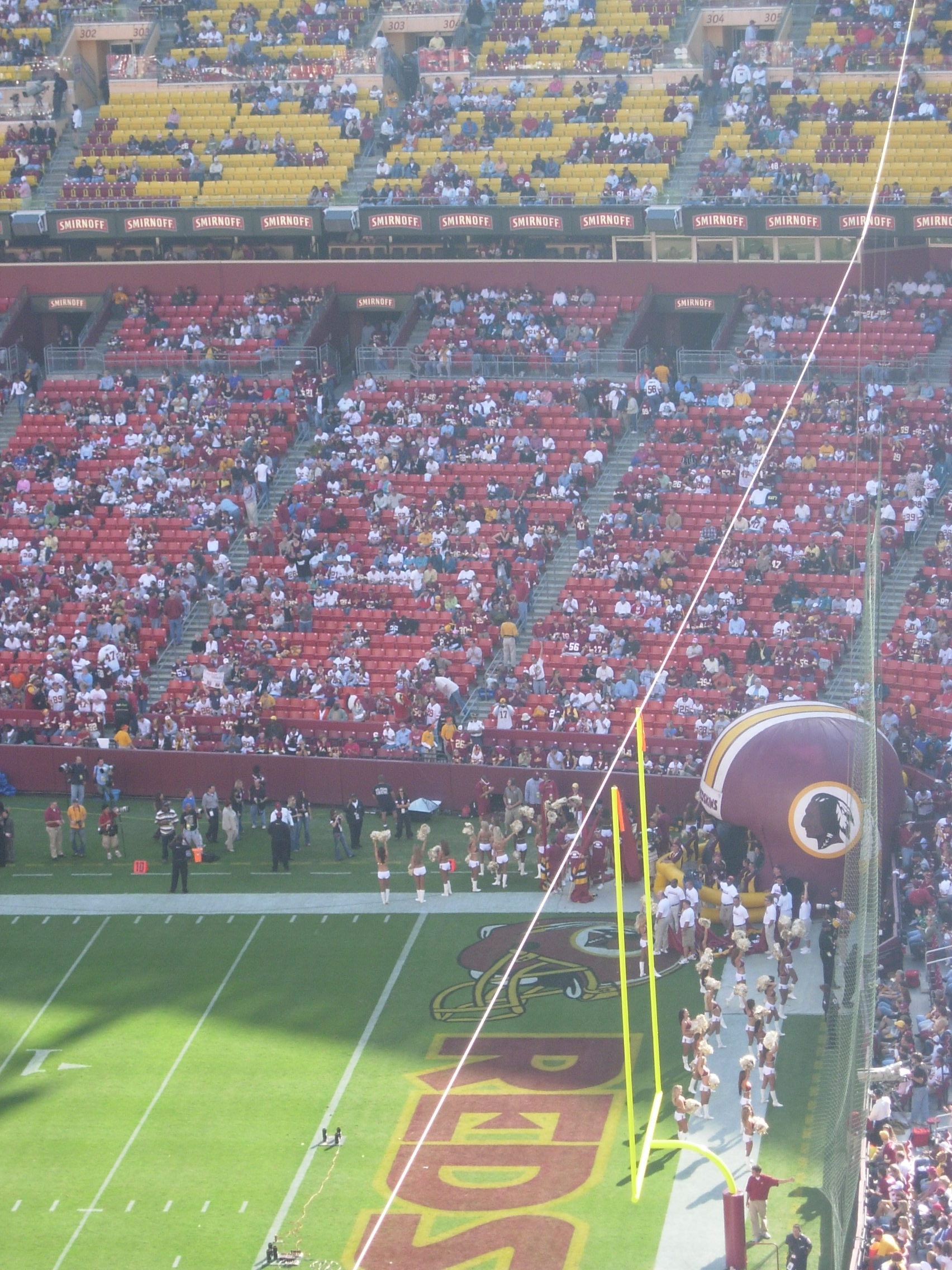 The Washington Redskins logo at FedEx Field, in Maryland.